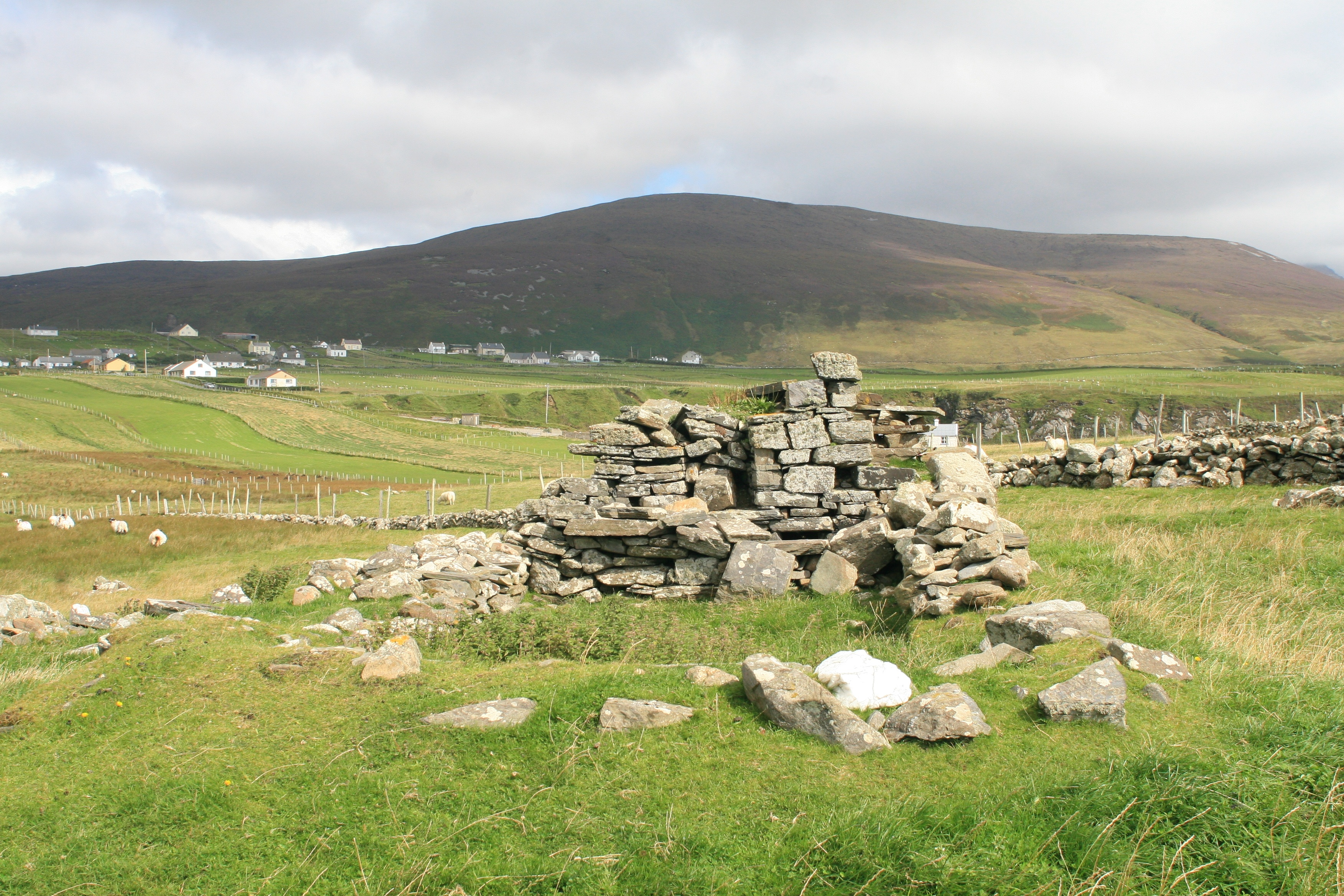 Malin Beg, County Donegal, Ireland Templecavan Church in front of Malin Beg and Mount Leahan (427 metres).